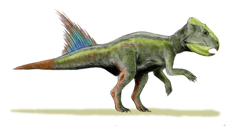 Archaeoceratops oshimai, a ceratopsian from the Early Cretaceous of China, pencil drawing, digital coloring